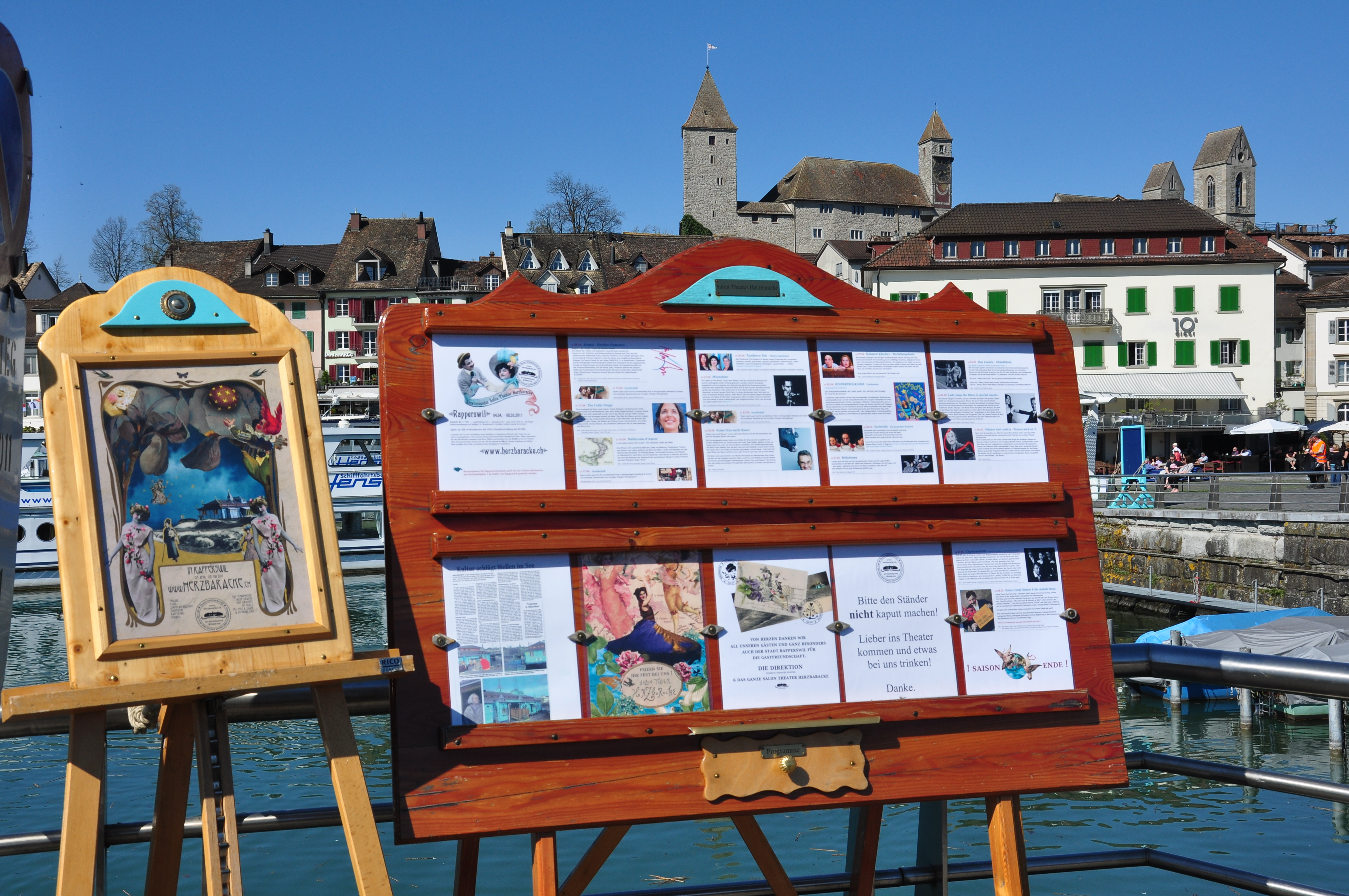 Theater Herzbaracke in Rapperswil (Switzerland) as seen from Seedamm, Schloss (castle) and Stadtpfarrkirche (St. John's church) in the background.